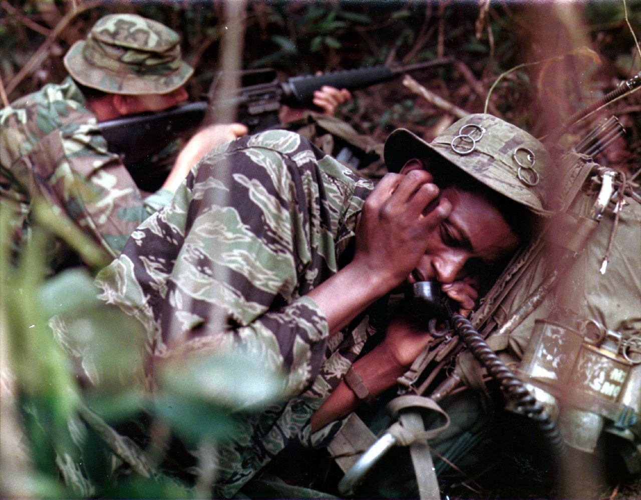 Sergeant Curtis E. Hester firing his M-16 rifle, Sergeant Billy H. Faulks calls for air support, Co D, 151st (Ranger) Inf., Vietnam War, 1969.